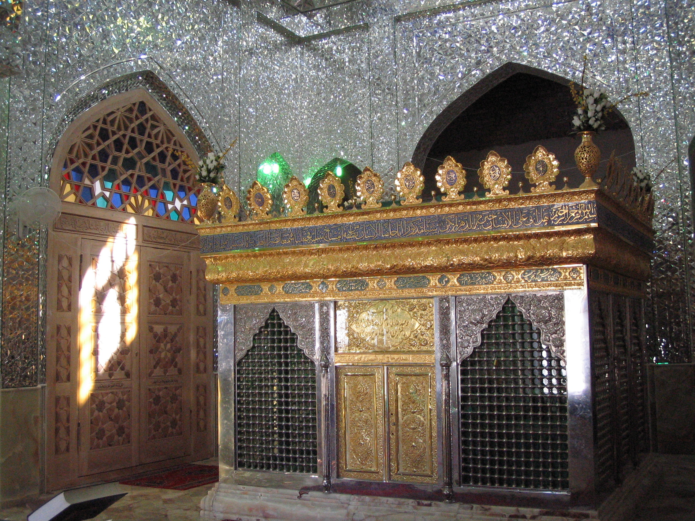 Emamzadeh in the suburbs of kashan, Iran